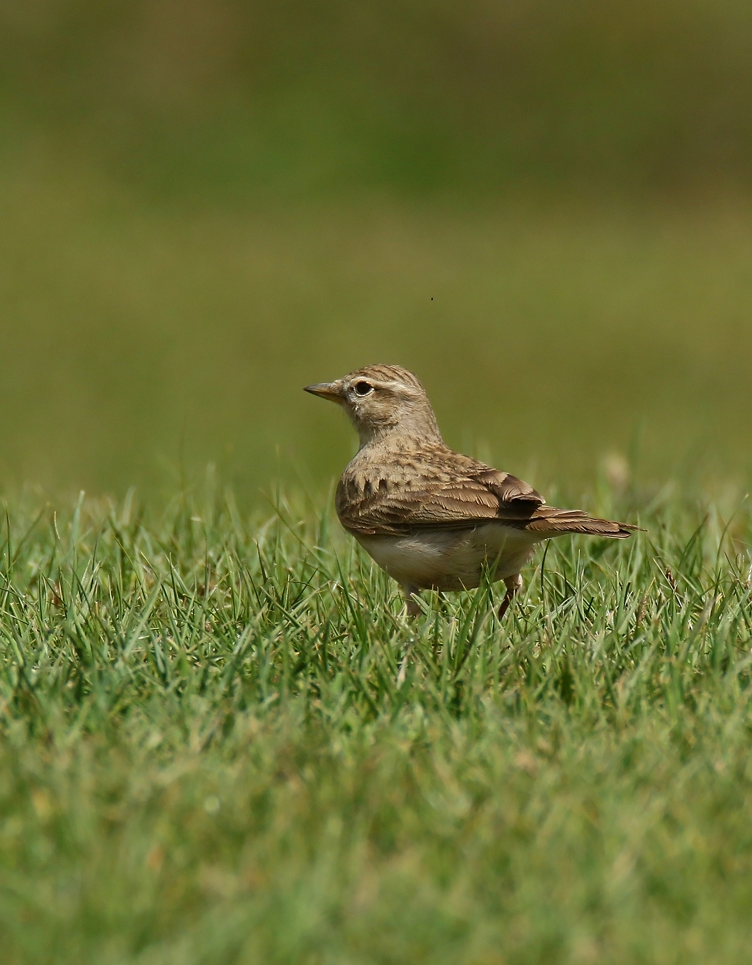 Greater Short-toed Lark (Calandrella brachydactyla) captured at Shandur, Ghizer, Gilgit-Baltistan, Pakistan with Canon EOS 7D Mark II